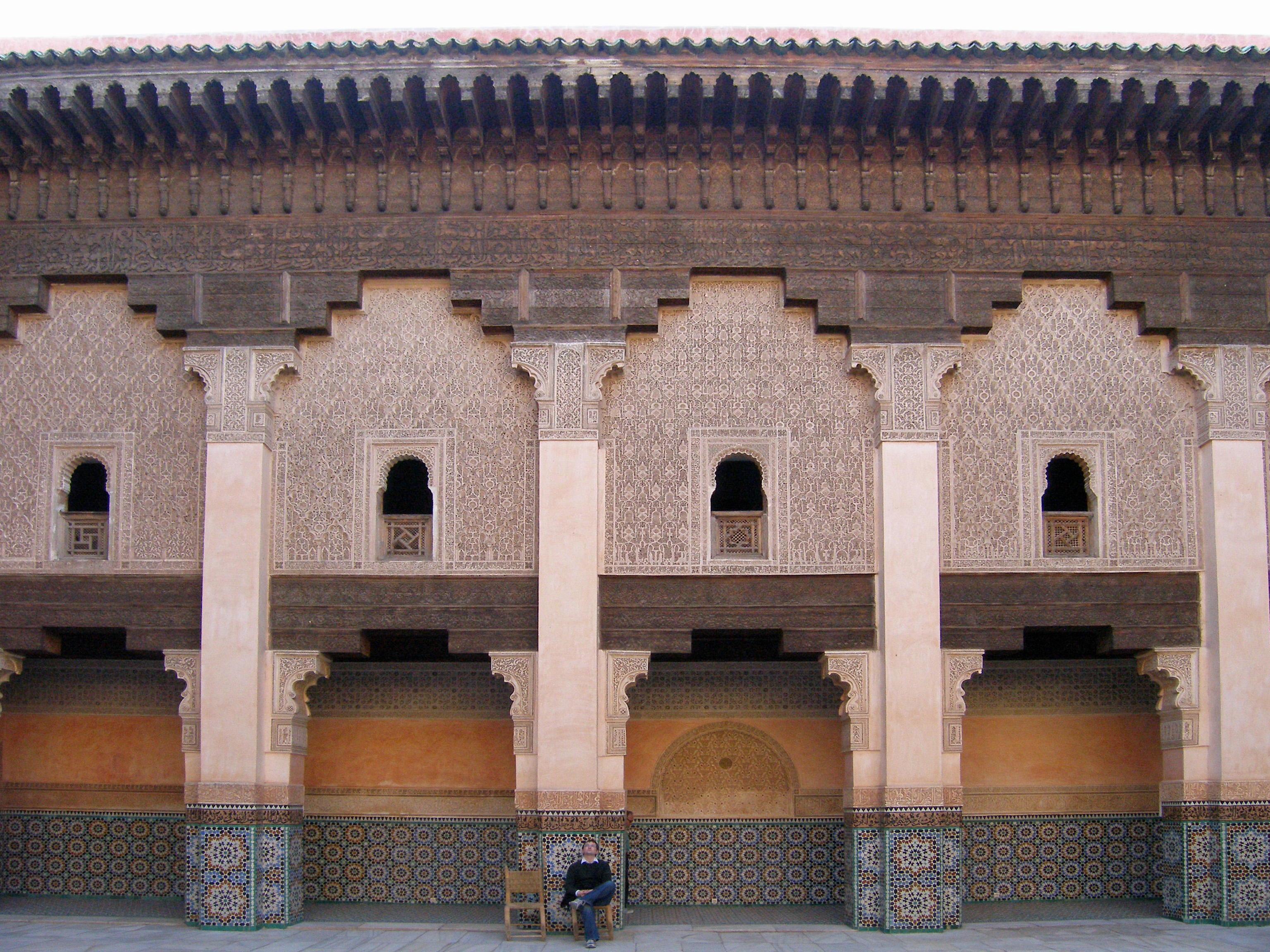 The Ben Youssef Medrassa in Marrakech.